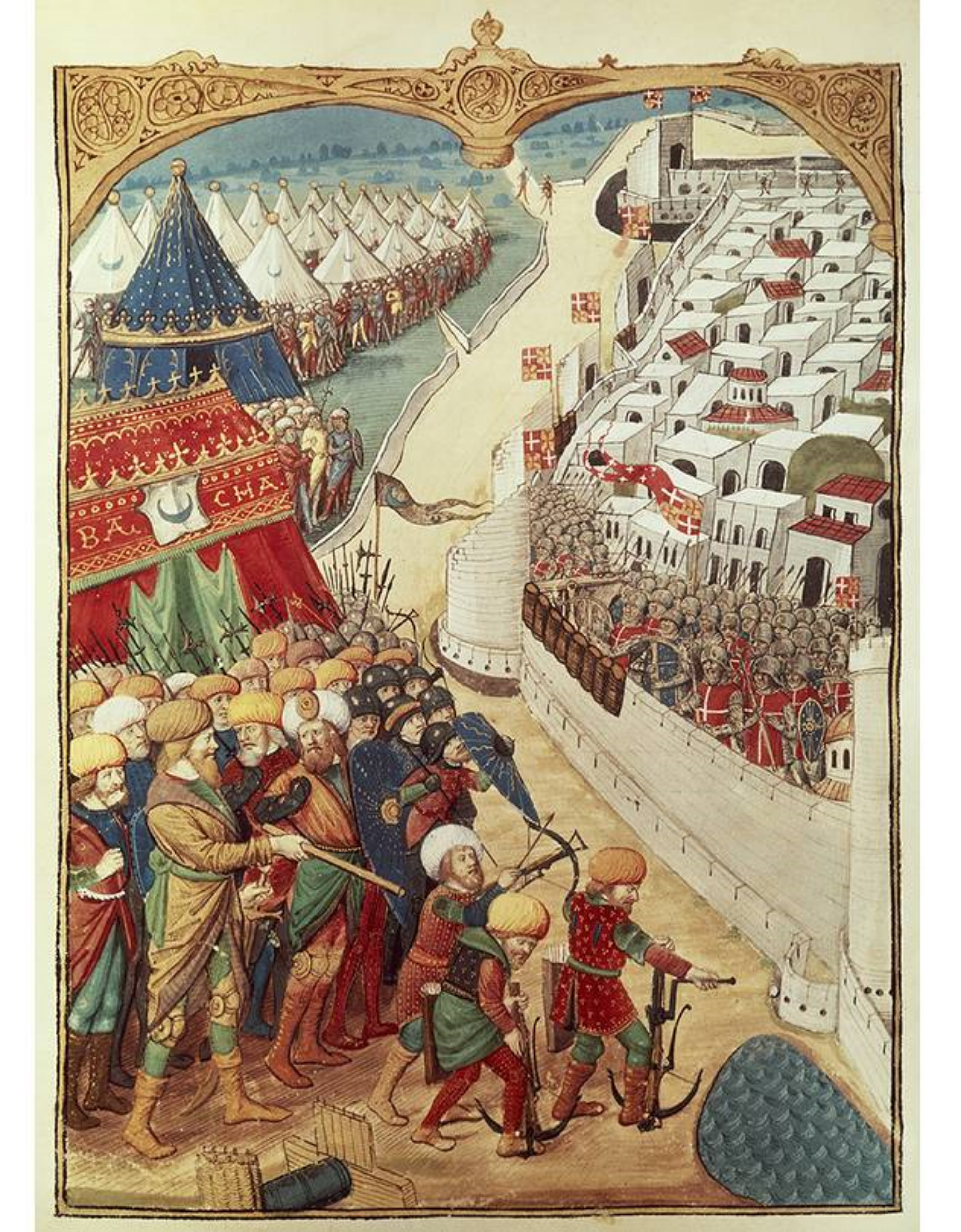 Turkish forces preparing for battle outside the walls of Rhodes in 1480, from 'A History of the Siege of Rhodes', by Guillaume Caoursin, 1483